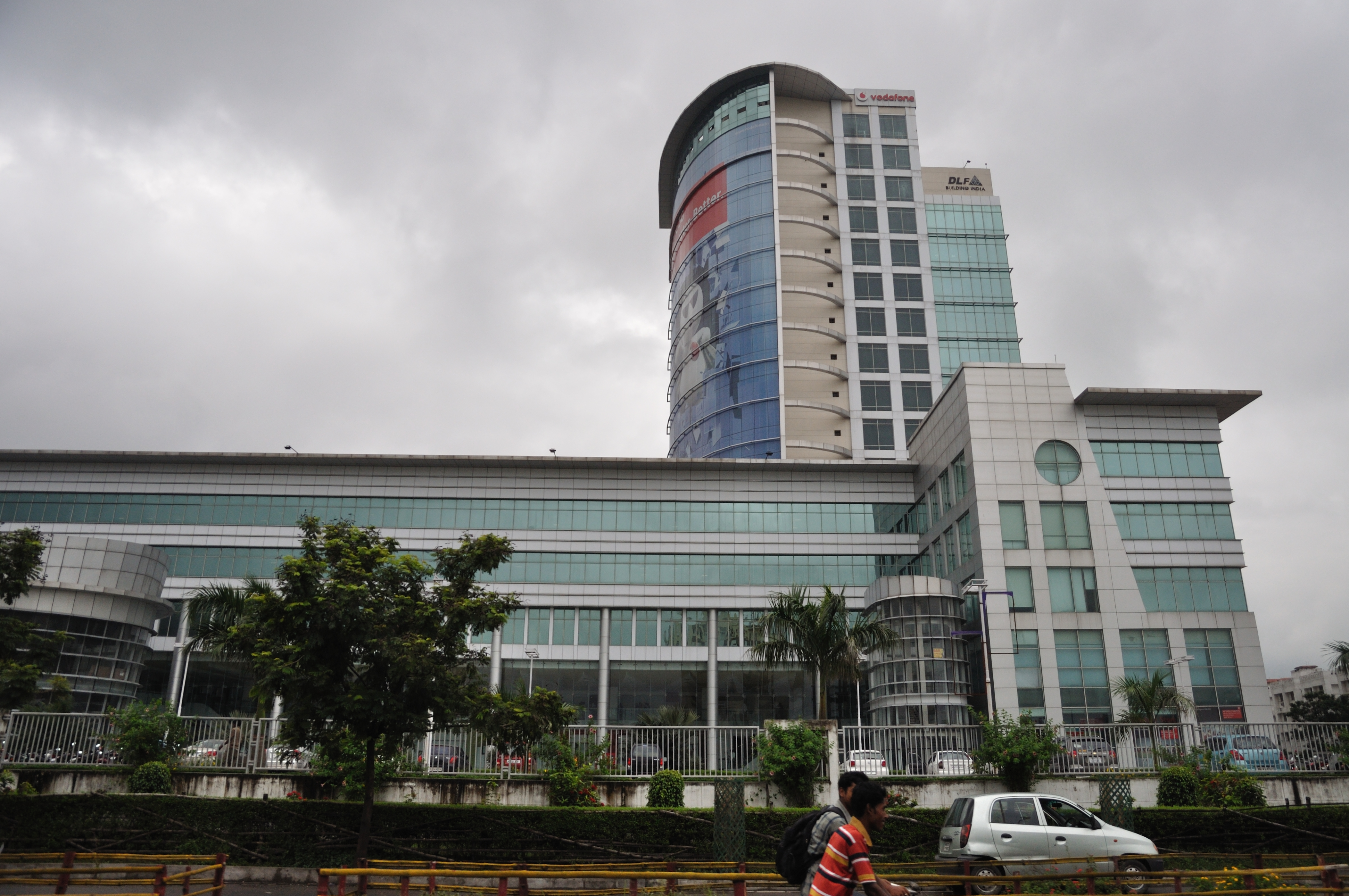 Rajarhat. This media file is uploaded with India loves Wikipedia event.